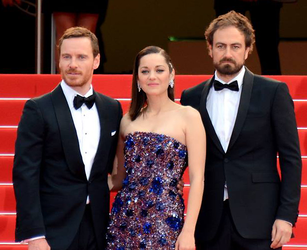 Michael Fassbender, Marion Cotillard and director Justin Kurzel promoting "Macbeth" at the Cannes film festival